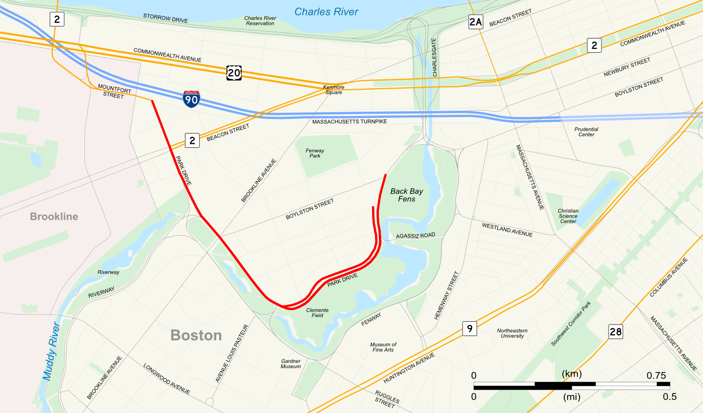 Map showing Park Drive, a historic parkway in Boston, Massachusetts, United States highlighting major local streets and highways, with Park Drive highlighted in red